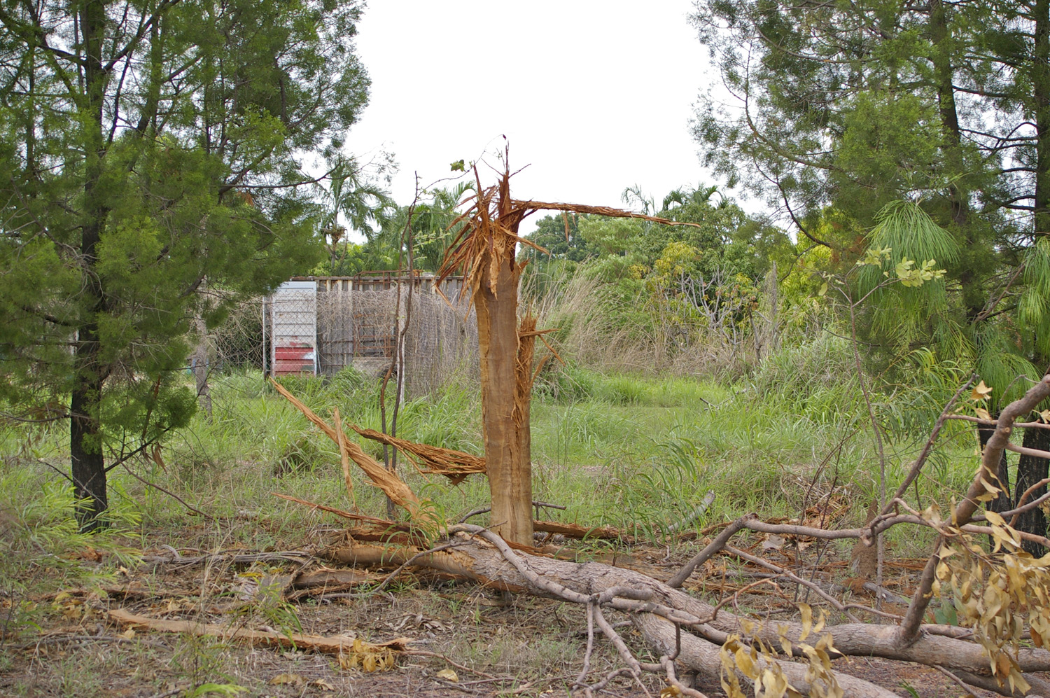 Tree hit by lightning. Darwin, Northern Territory.